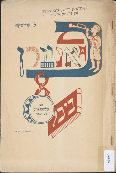 To read the entire book, clickhere. Illustrator: Ryback, Issachar, 1897-1935. Author: Kvitko, Leib, 1890-1952 Object Origin: Kharkov Dimensions: 7 pages Date: 192-? Persistent URL: Repository: YIVO Institute for Jewish Research, 15 West 16th Street, New York, NY 10011 Call Number: 00006109 Rights Information: No known copyright restrictions; may be subject to third party rights. For more copyright information, click here. See more information about this image and others at CJH Digital Collections. Digital images created by the Gruss Lipper Digital Laboratory at the Center for Jewish History